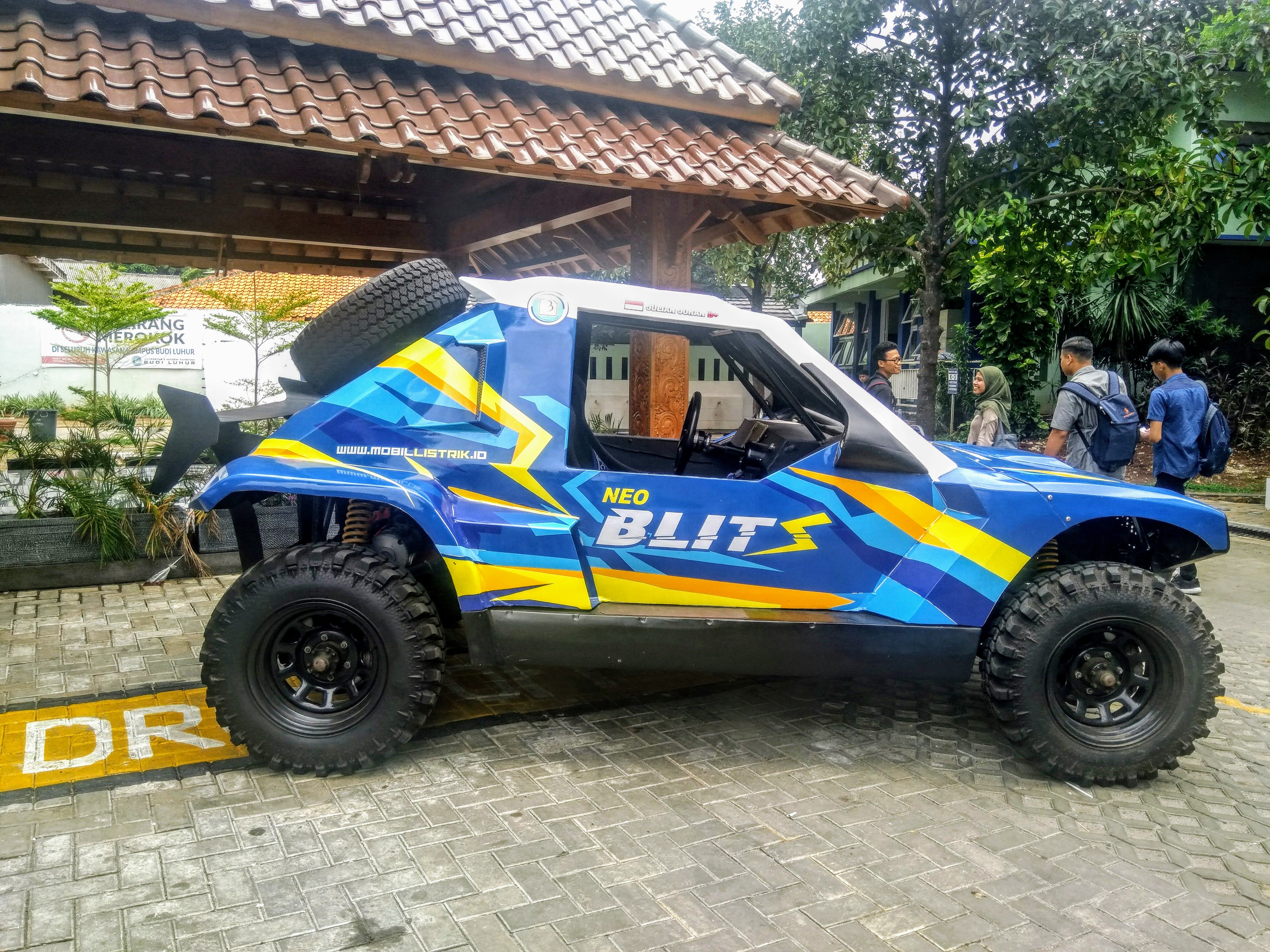 Here is NEO BLITS electric rally raid car, the successor to the original BLITS electric rally raid car.